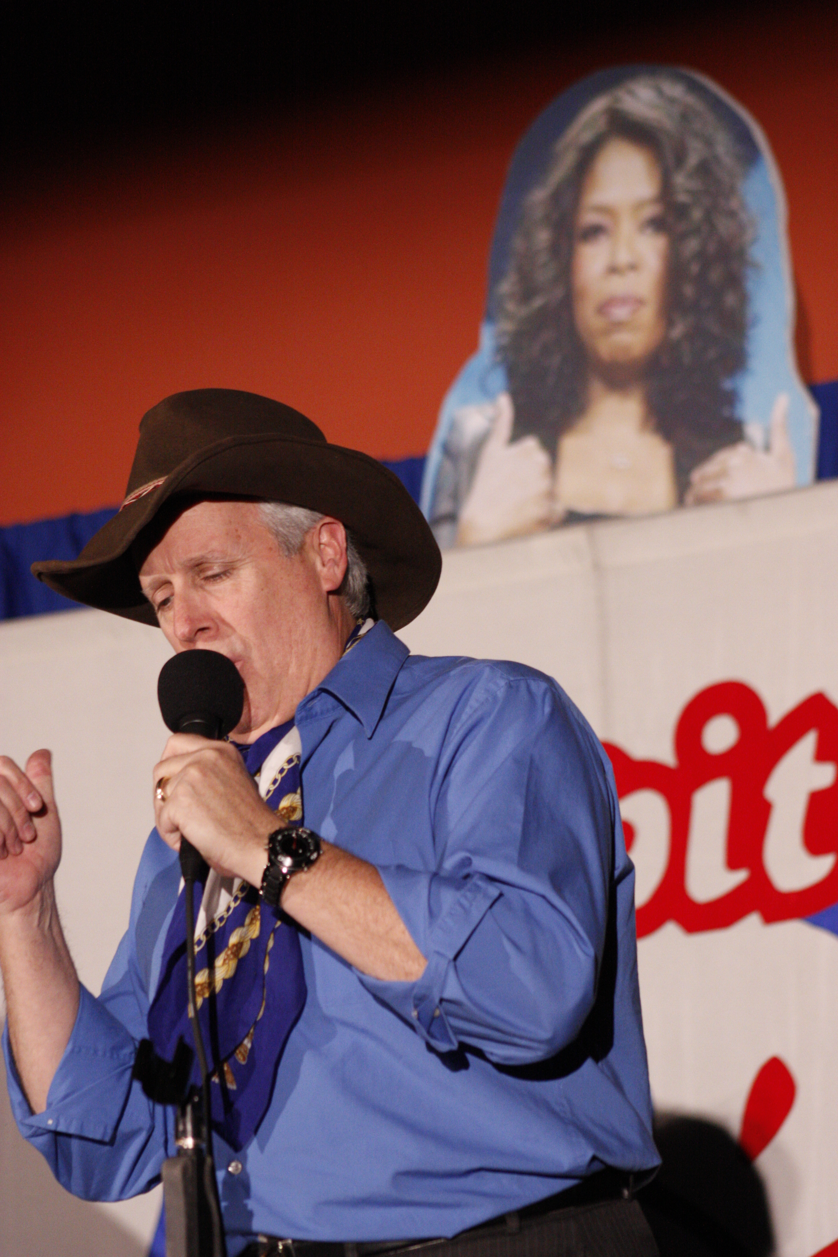 The Capitol Steps Perform at CUA Photo by Ryan J. Reilly / The Tower